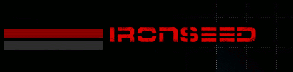 logo of ironseed (webseite version)